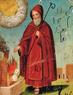 Tin Retablo Santa Painting, San Francisco de Paula, Mexico, dated Agosto 20 de 1896